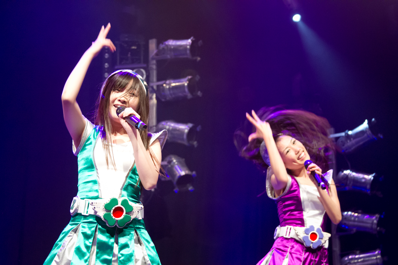 Members of Momoiro Clover Z, Japanese pop idol group. This Photo was taken in Japan Expo 2012 at Paris.